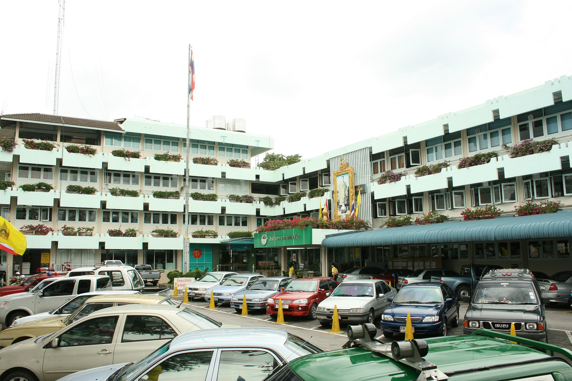 District office of Bangkok Noi, Bangkok, Thailand